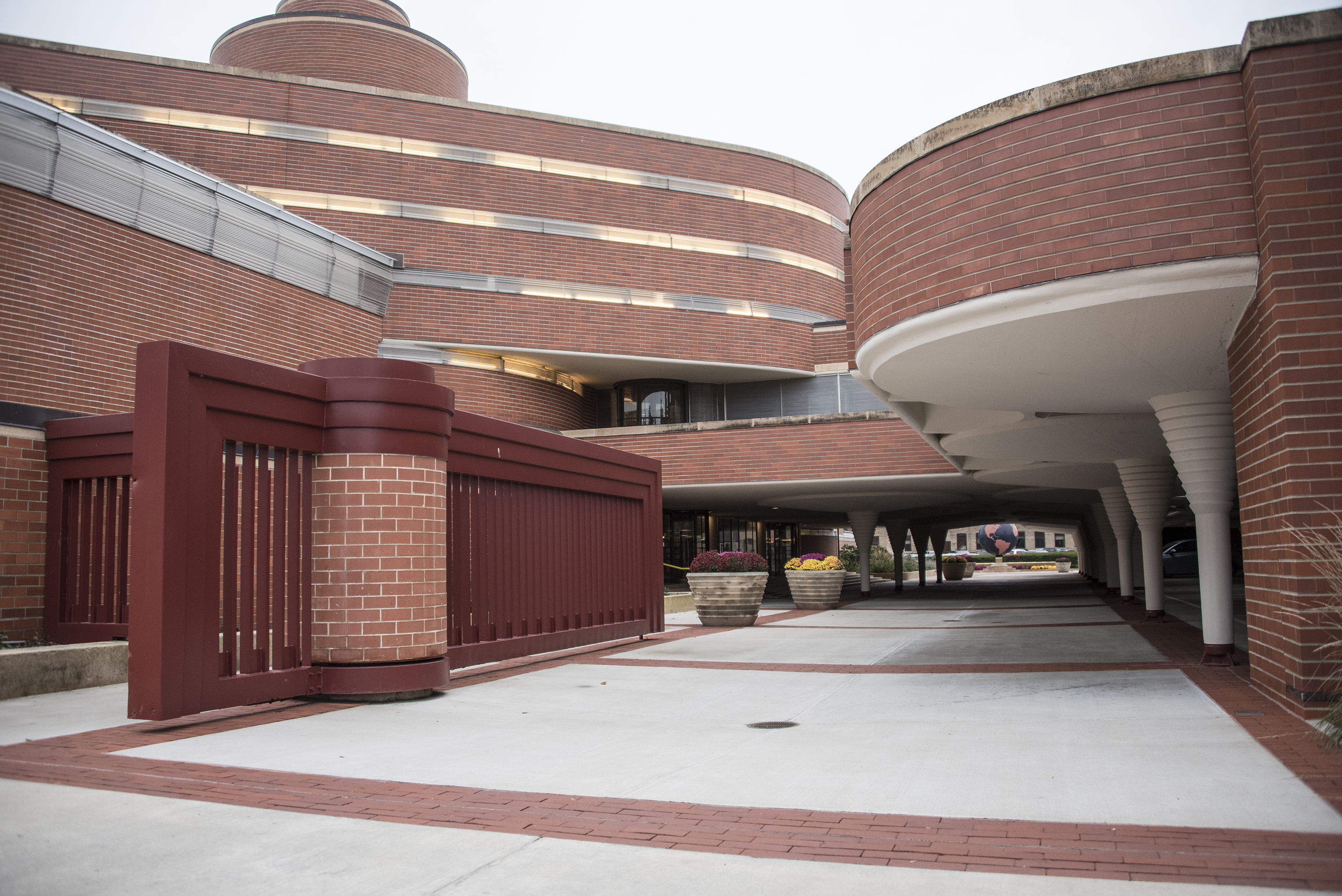 Entrance to SC Johnson Administration Building, Racine, Wisconsin.